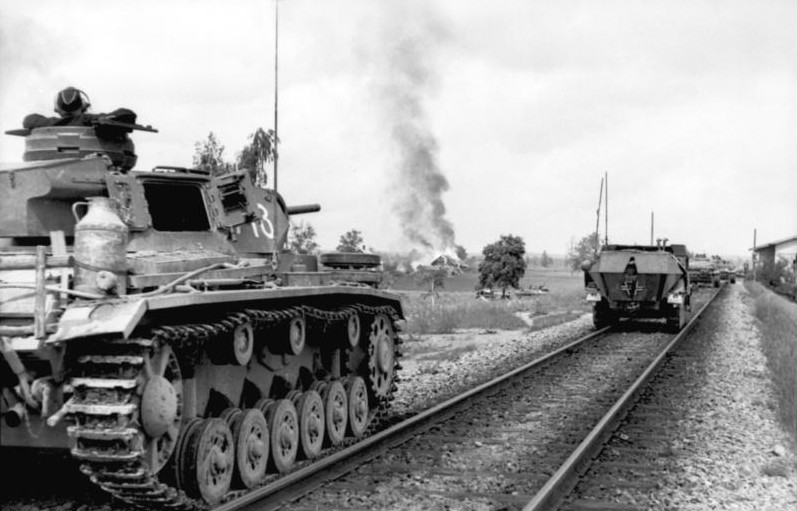 Lettland, Aiviekste. Left, Panzer III and in middle distance at right, Schützenpanzer (Sd.Kfz. 251 with Scherenfernrohr - Periscope binoculars) on railtracks; PK 694